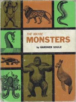 The front cover of The Maybe Monsters, 1963.